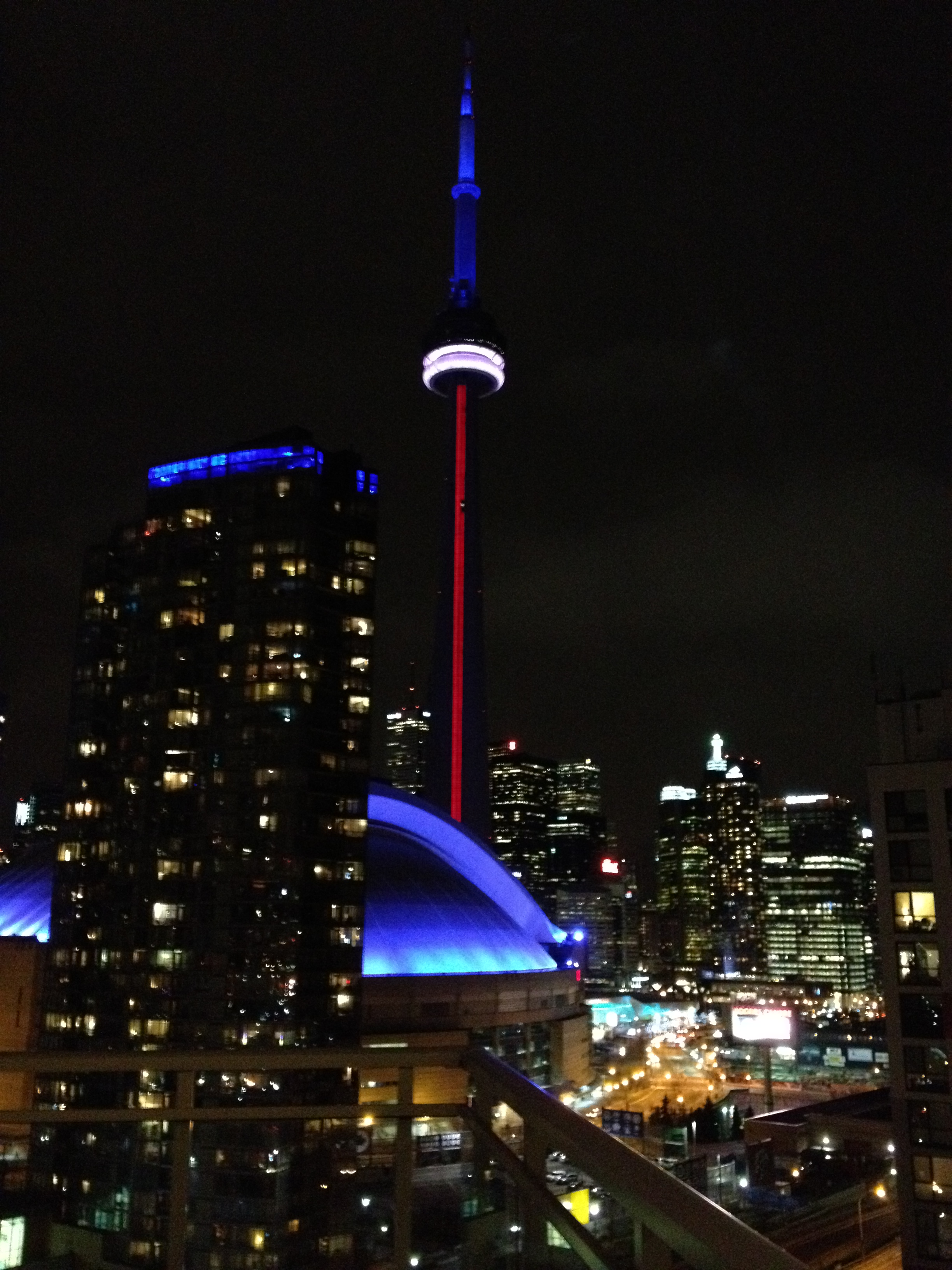 Photograph of the CN Tower, Toronto lit up with the tricolour of France's flag in-memoriam to the November 2015 Paris attacks.